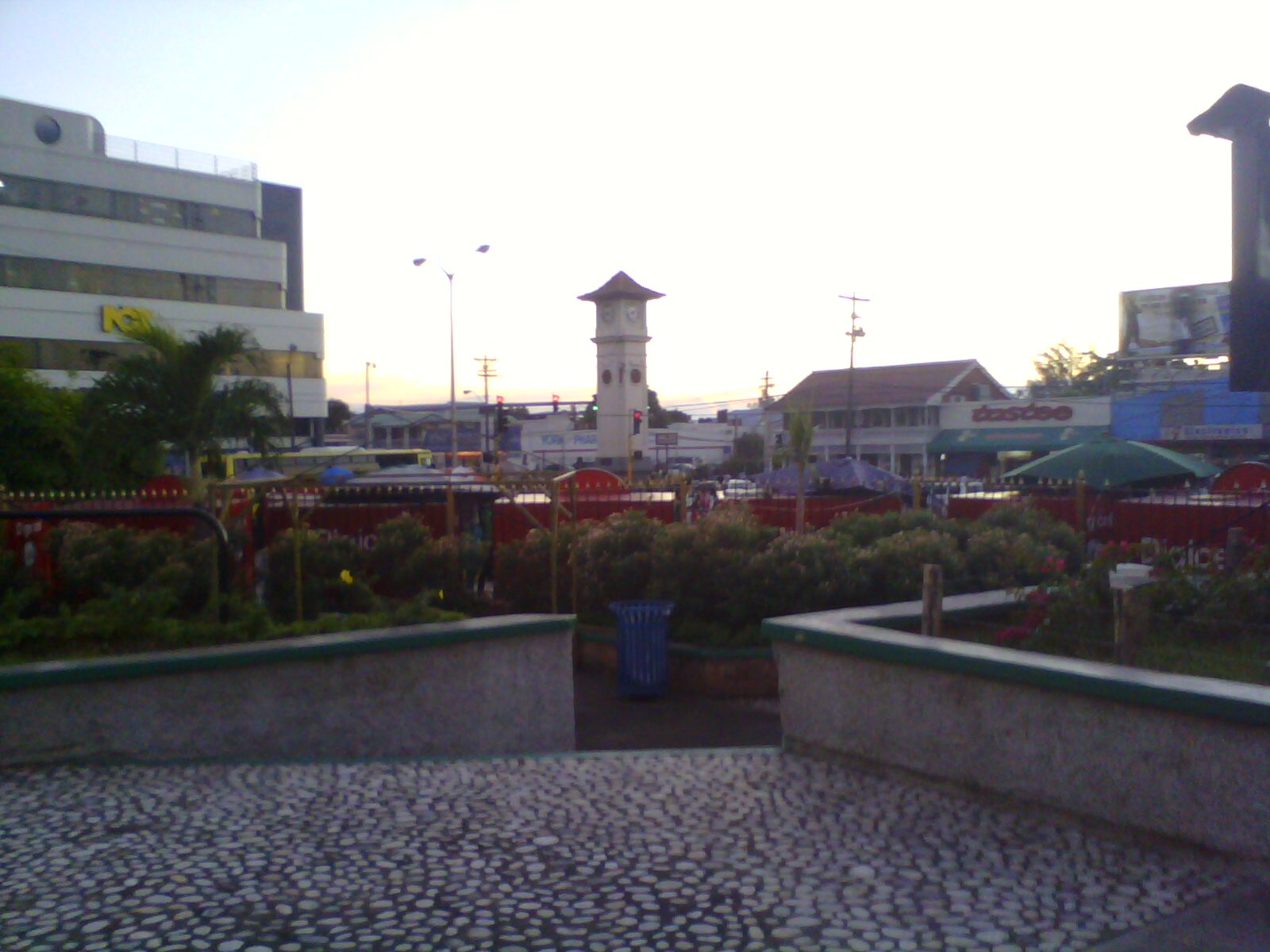 this is a photo of the clock area in half way tree,Jamaica